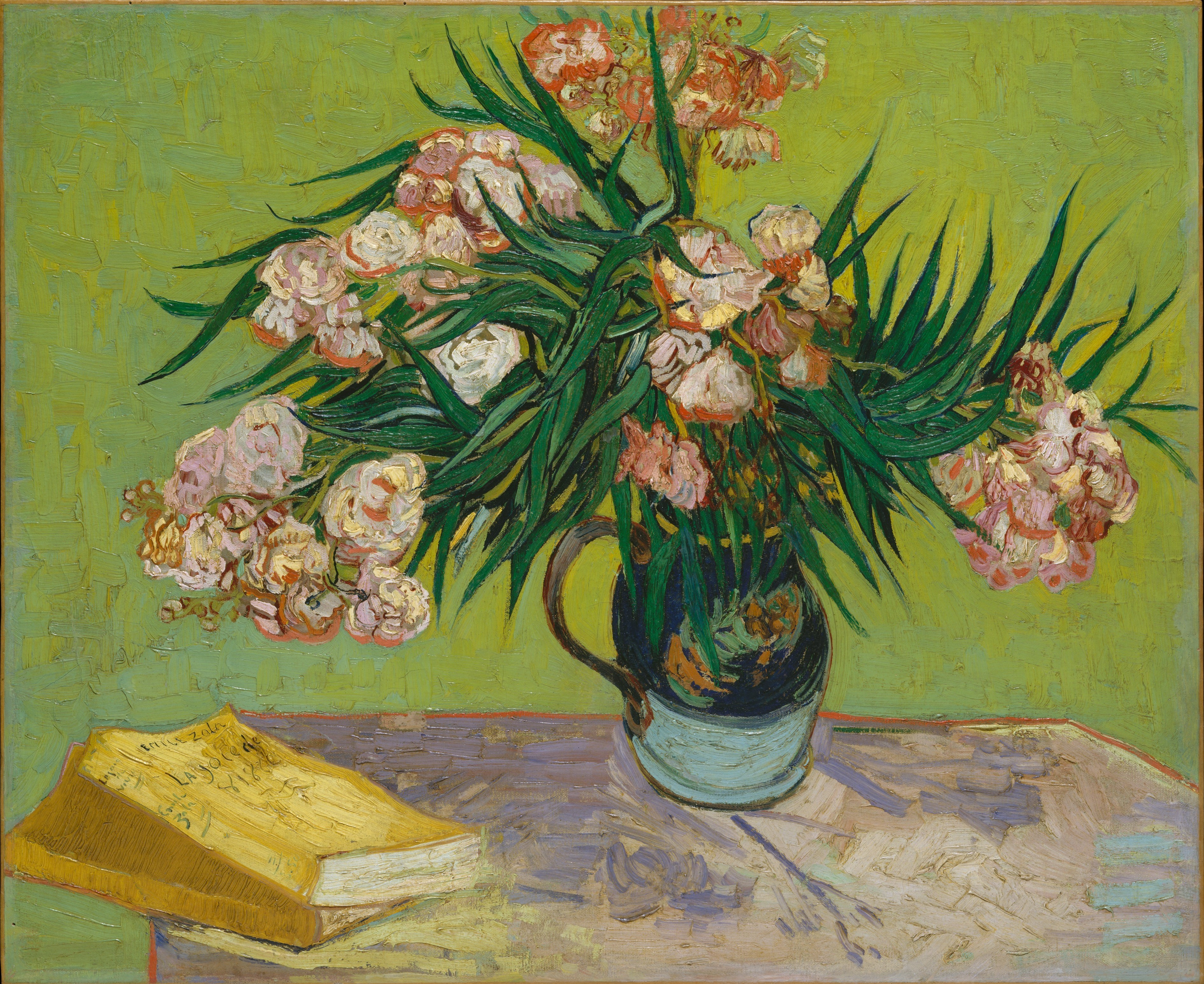 Oleanders by Vincent van Gogh : For Van Gogh, oleanders were joyous, life-affirming flowers that bloomed "inexhaustibly" and were always "putting out strong new shoots." In this painting of August 1888 the flowers fill a majolica jug that the artist used for other still lifes made in Arles. They are symbolically juxtaposed with Émile Zola's La Joie de vivre, a novel that Van Gogh had placed in contrast to an open Bible in a Nuenen still life of 1885[1].